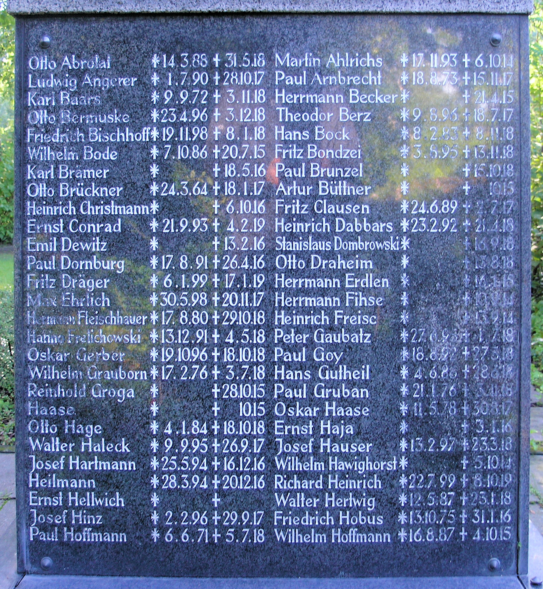 Gravestone, Opfer des ersten Weltkrieges, An der Wuhlheide 131a, Berlin-Oberschöneweide, Germany Koordinate:52°27′50″N 13°31′59″E / 52.46389°N 13.53306°E